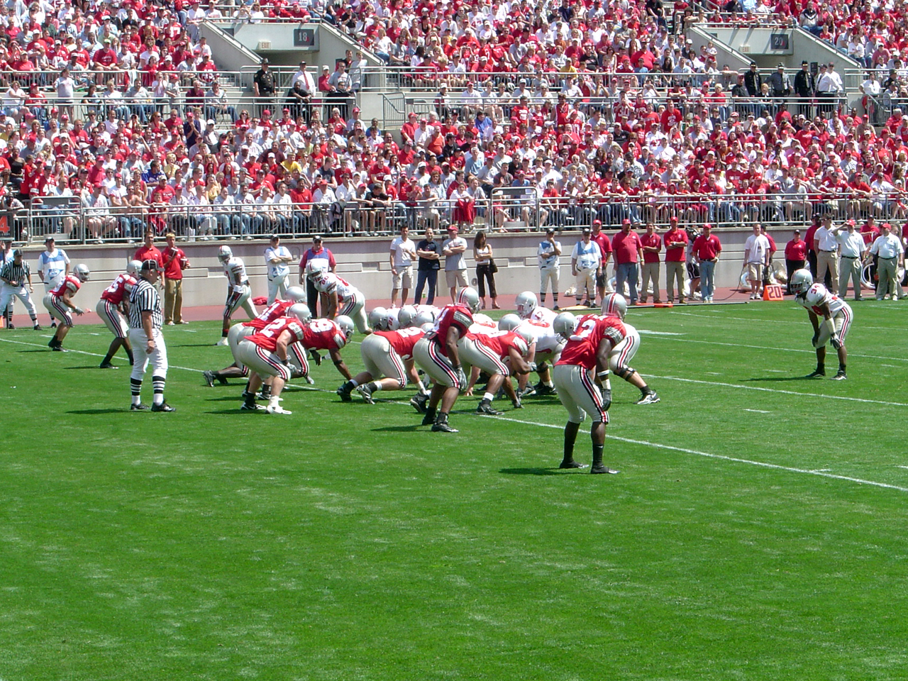 The Scarlet Gray Scrimmage game at Ohio State University.